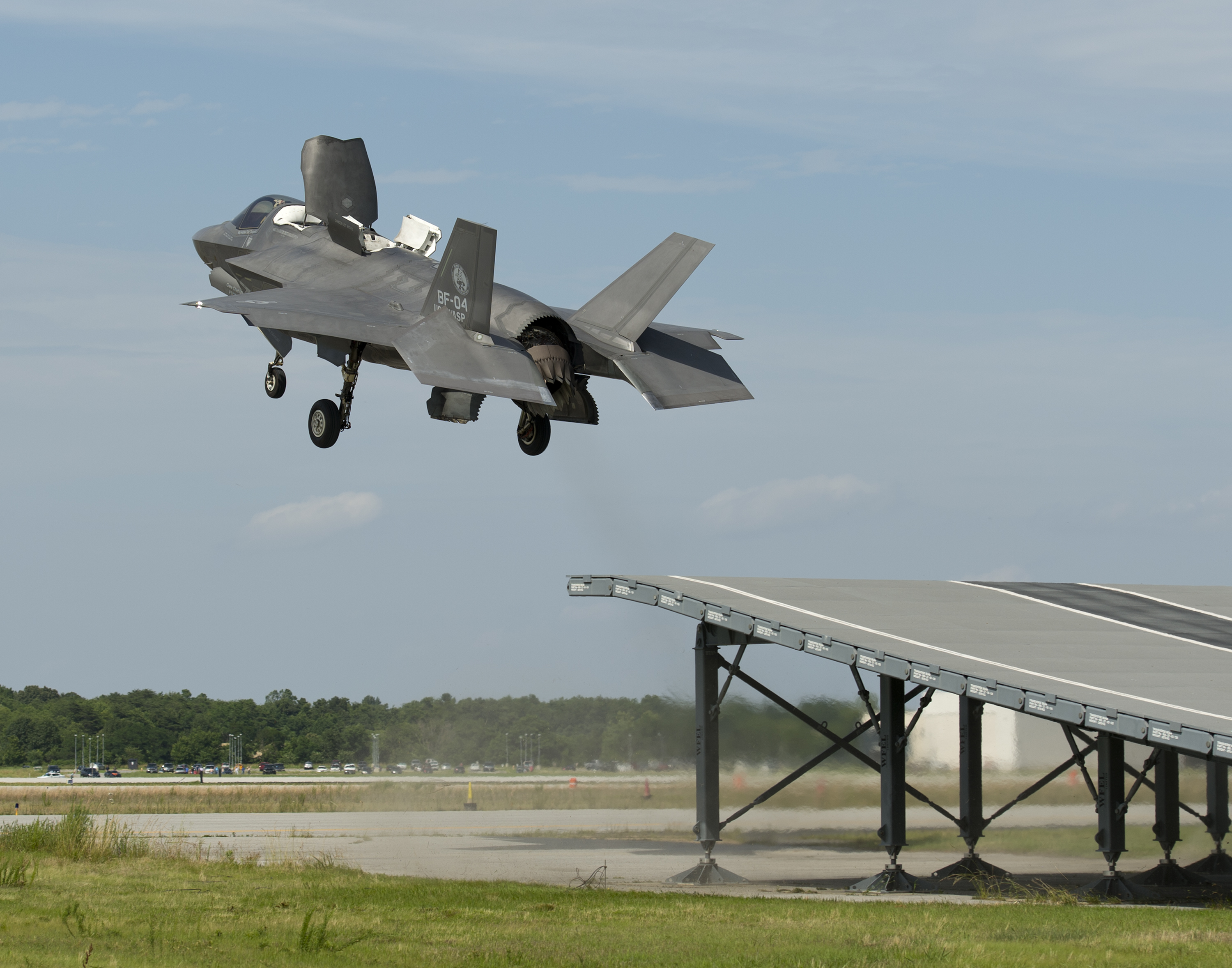 The joint U.S.-U.K. Pax River ITF test team successfully launched an F-35B Lightning II multi-role Short Takeoff and Vertical Landing variant from a land-based ski jump aboard NAS Patuxent River June 19, 2015. Because U.K. and Italian carriers use the ski jump approach to carrier operations as an alternative to the catapults and arresting gear used aboard U.S. aircraft carriers, the F-35 test team partnered with a Geomatics and Metrology team from NAVAIR’s Atlantic Test Ranges and the U.K.-based WFEL, Ltd. to test aircraft BF-04 on the upward-sloped ramp. Unit: F-35 Lighting II Pax River ITF